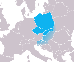 Median Est Europa